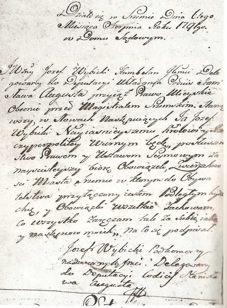 Declaration signed by Józef Wybicki - author of the Polish National Anthem lyrics - of becoming a citizen of the town of Śrem (1791) Akces do stanu mieszczańskiego, podpisany przez Józefa Wybickiego w Śremie w 1791